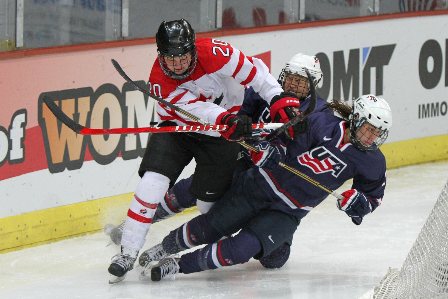 Jennifer Wakefield vs 2 Americans, in IIHF World Women Championship 2011. Gold Medal Game USA - Canada 3-2 OT.